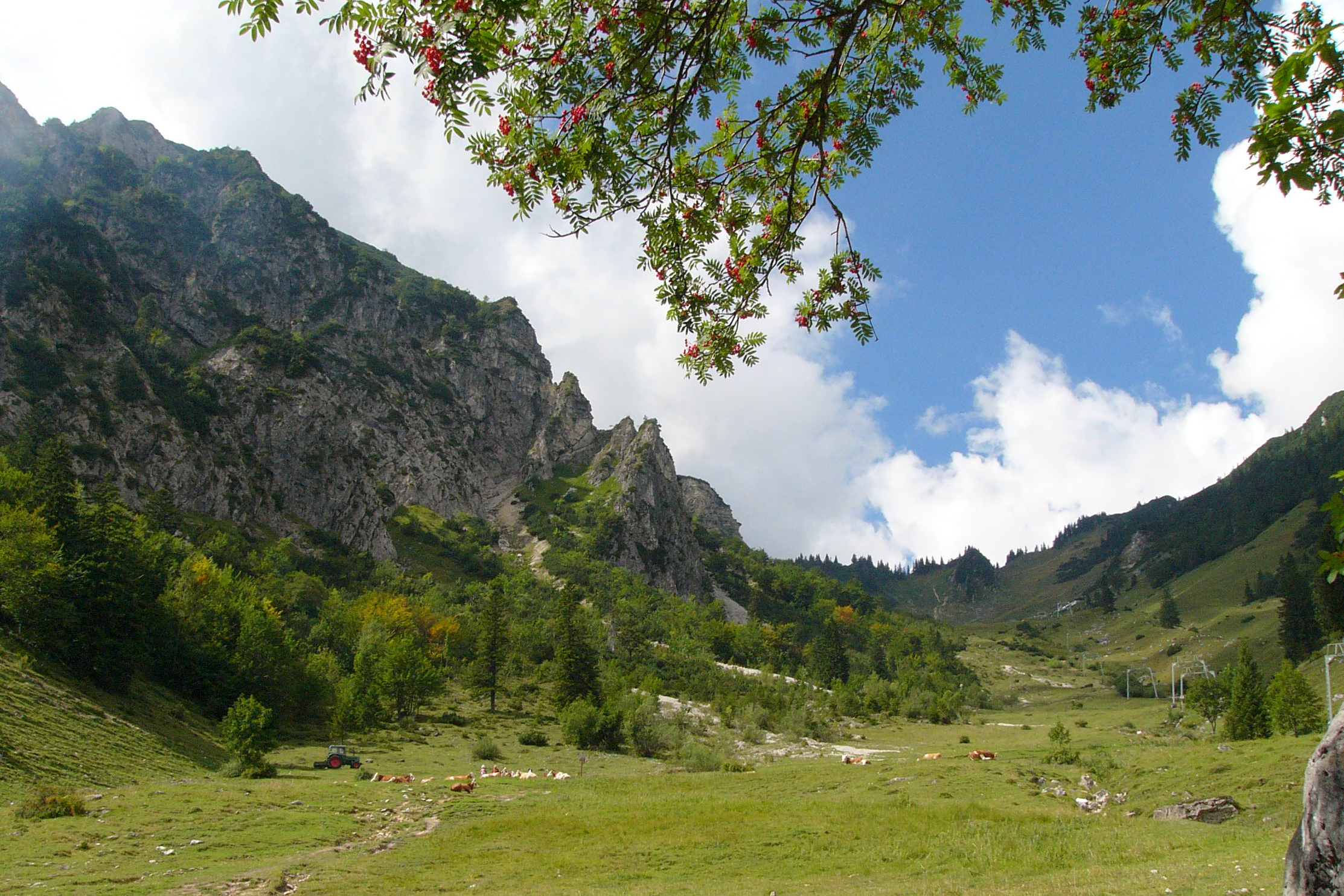 Valley near the peak of Geigelstein, Bavaria, Germany.